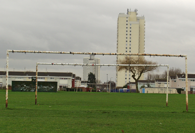 Orchard Park playing fields, Hull, East Riding of Yorkshire, England.Looking towards Dane Park Road on the northern edge of the Orchard Park estate.